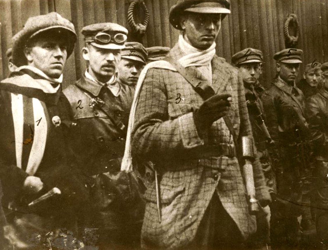 Joseph Czerny and the Lenin boys